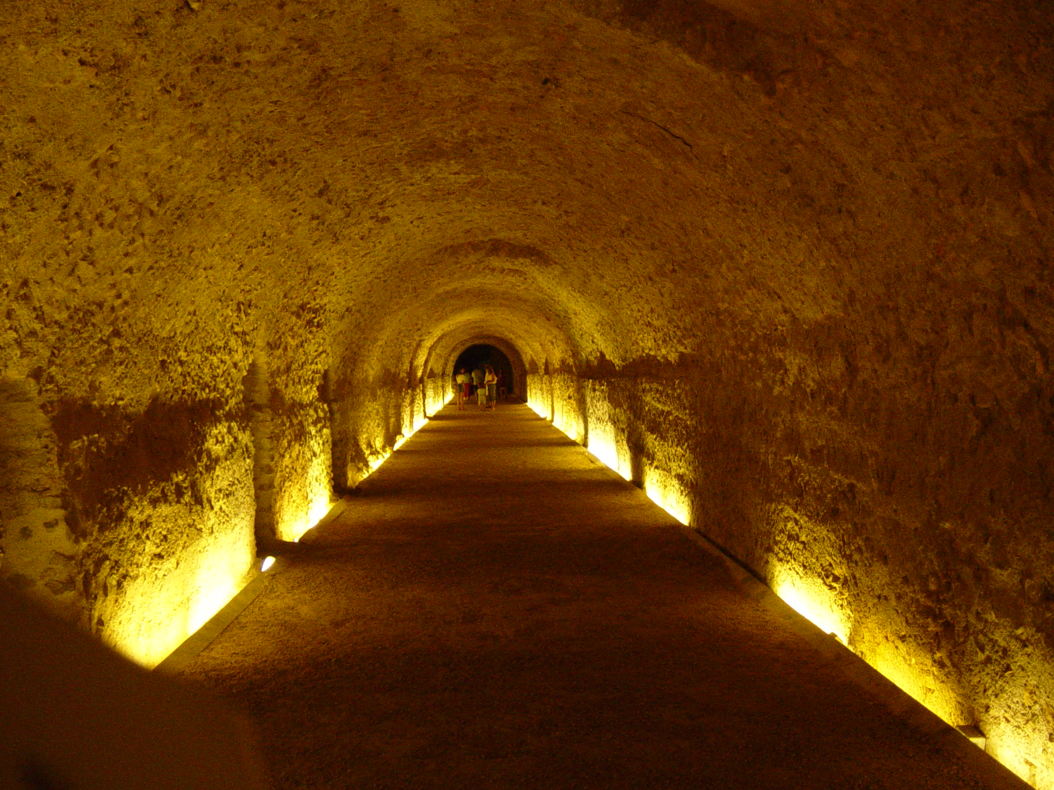 tunnel in the old roman circus maximus, Tarragona (Spain)